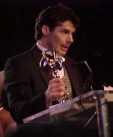 James Bonn accepting his award for Best Actor - Film at the 1999 AVN Awards show